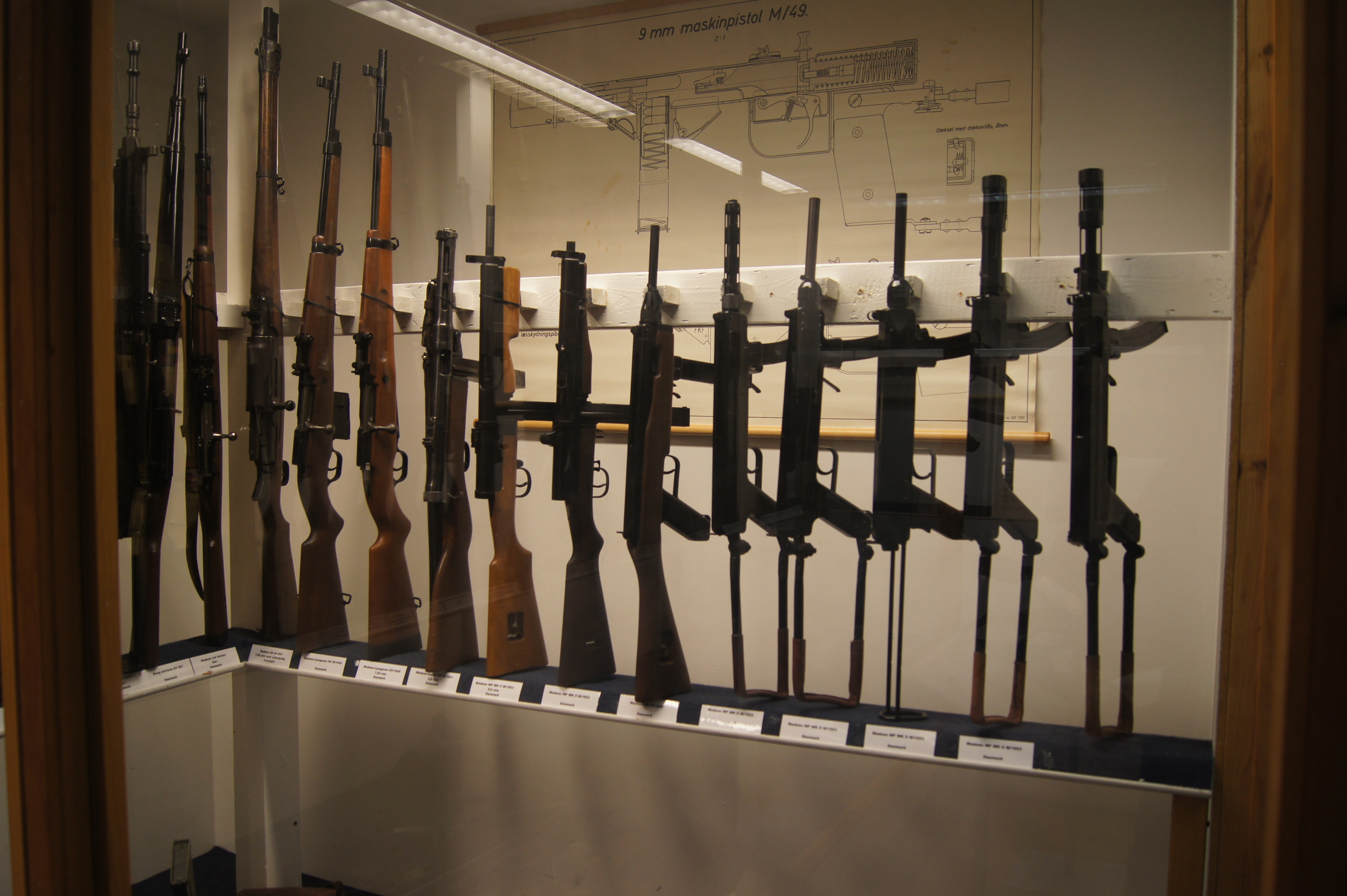 Rack of Madsen weapons, at Aalborg Forsvars- og Garnisonsmuseum